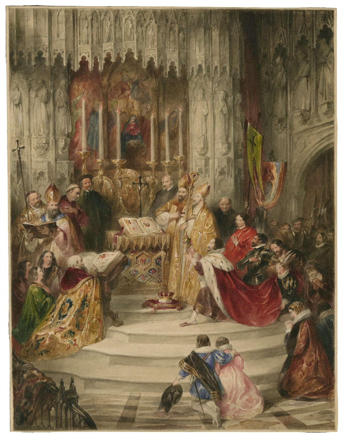 A watercolor by James Stephanoff of Act I, Scene i: the marriage of King Henry and Queen Margaret.